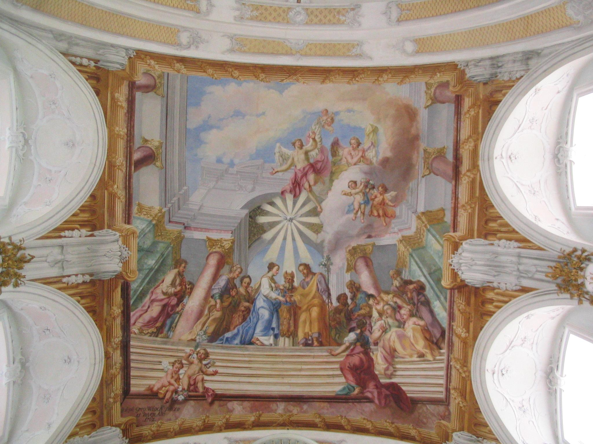 Image: Inside St. Maria Immaculata, Büren, Germany Author: Benutzer:Momo Picture taken: Aug 2004 License: GFDL